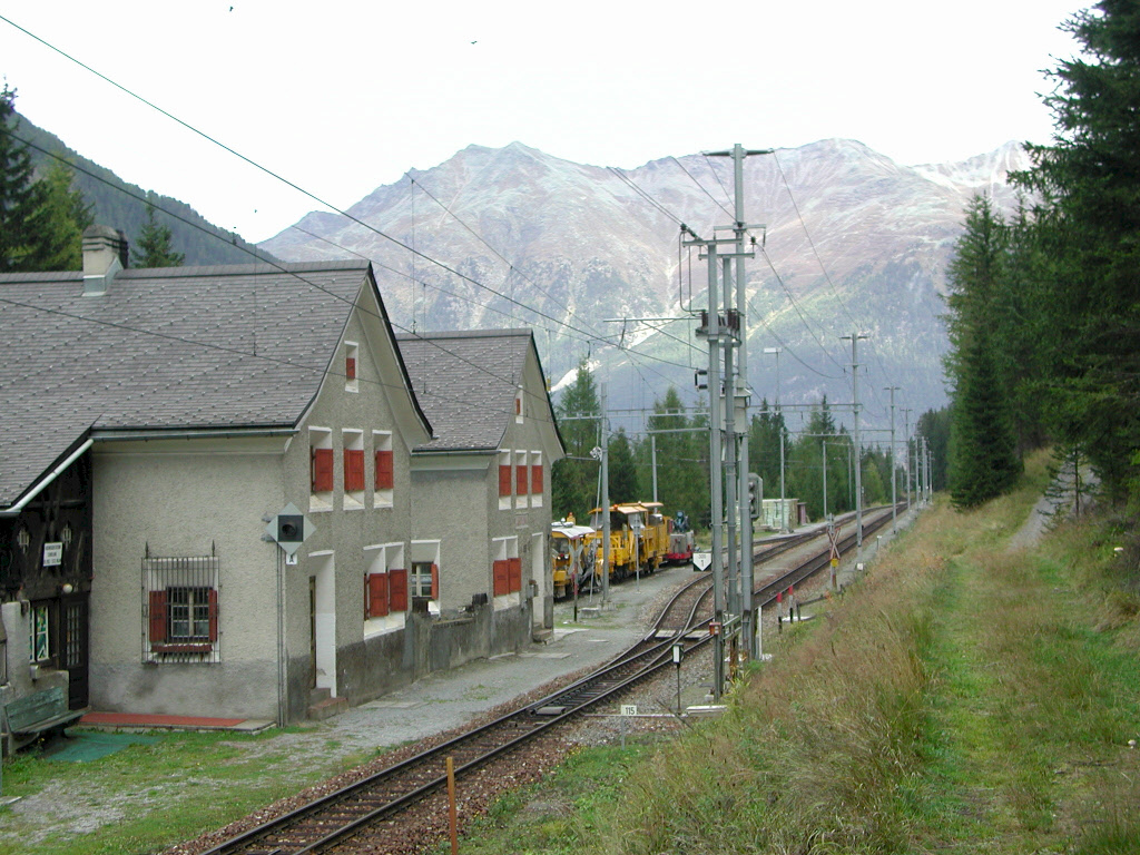 Carolina. Train station. Rhaetian Railway, Switzerland.